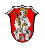 Coat of Arms of Randersacker